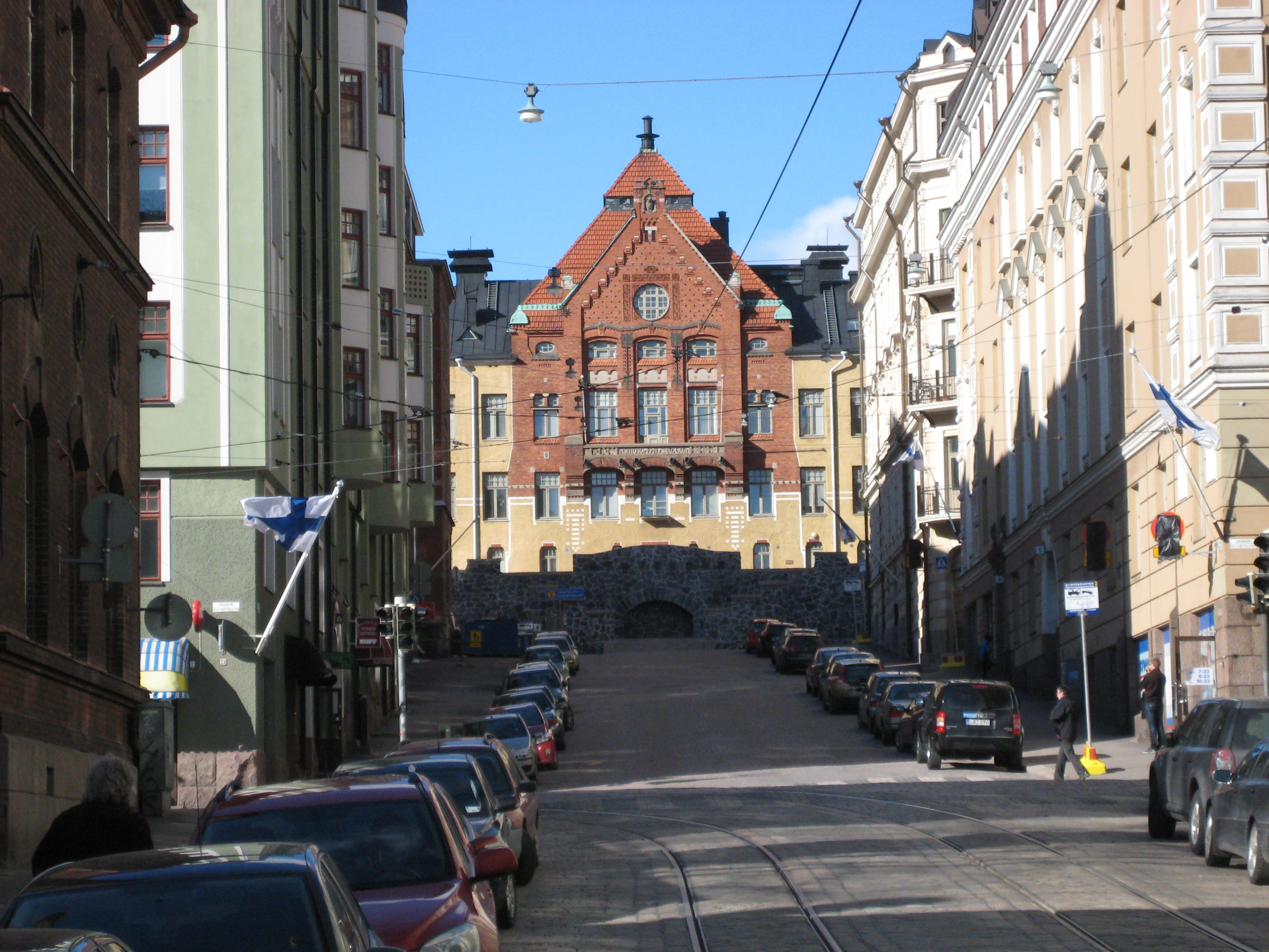 Institute of Behavioural Sciences, University of Helsinki.